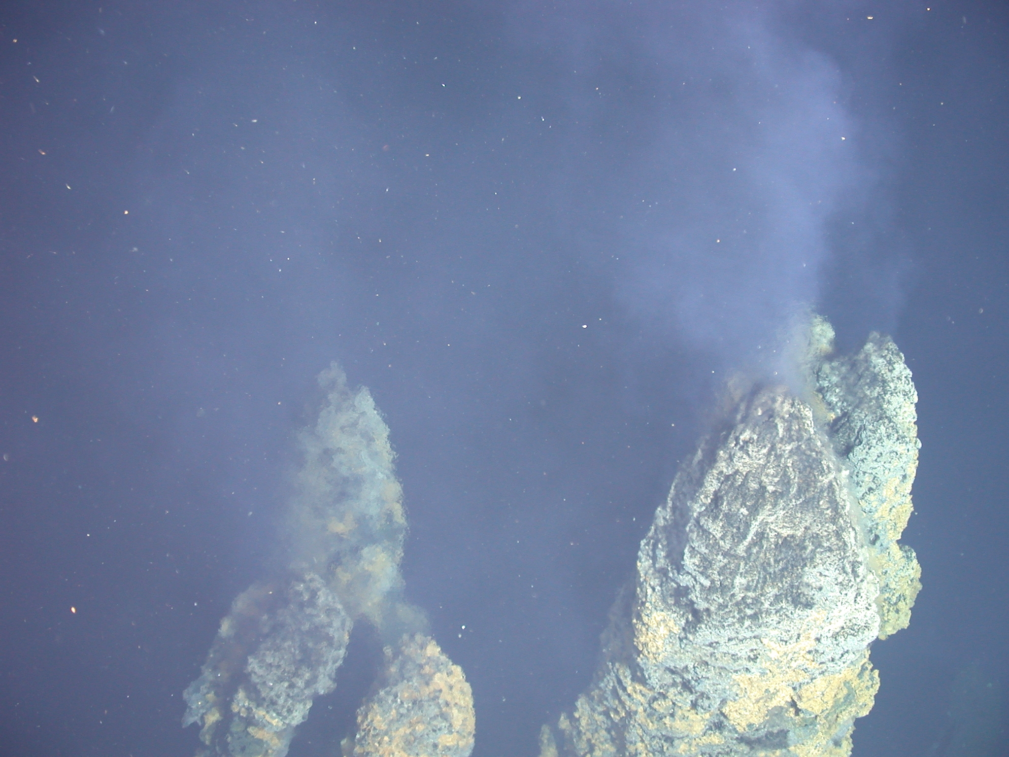 Ring of Fire 2006 Expedition. East Diamante Volcano. An active hydrothermal vent chimney spewing out hydrothermal fluids.